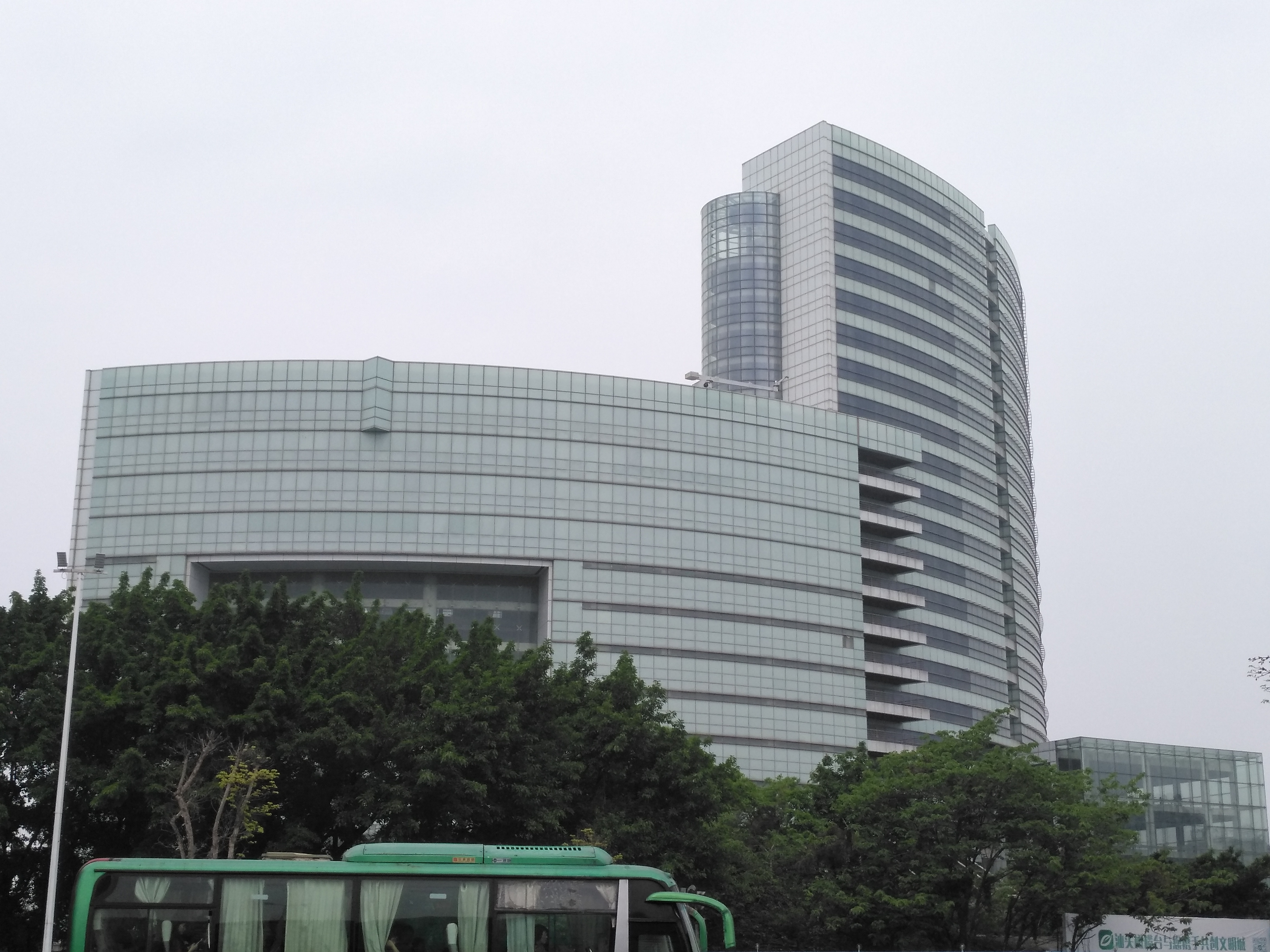 Shantou Radio Television Center, located at No.48, Chaoshan Road, Jinping District, Shantou City, Guangdong Province, China.